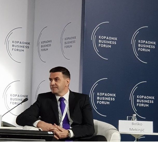 Boško Mekinjić at Kopaonik Business Forum 2019